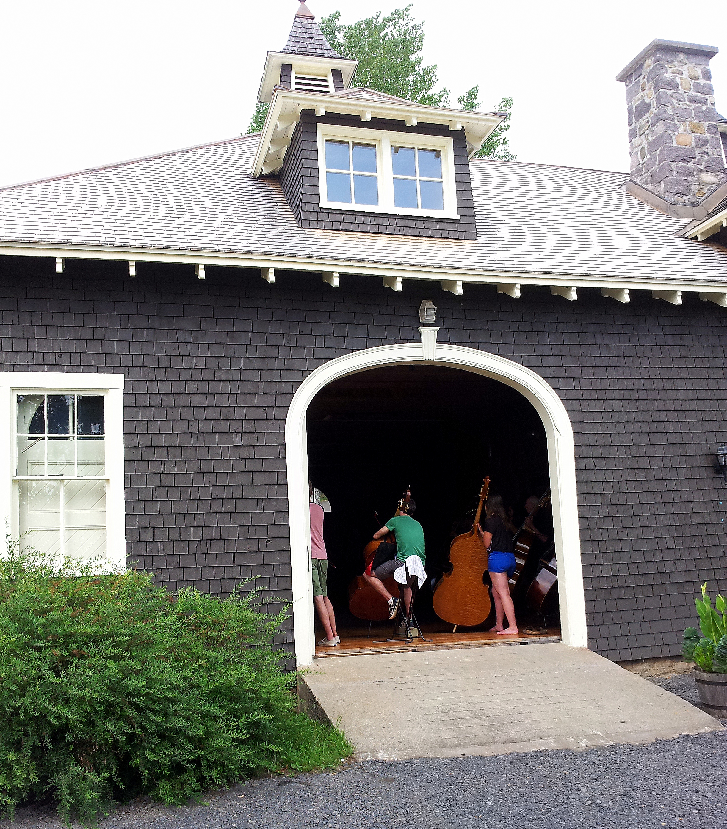 Master Class, Domaine Forget, Saint-Irénée, Québec